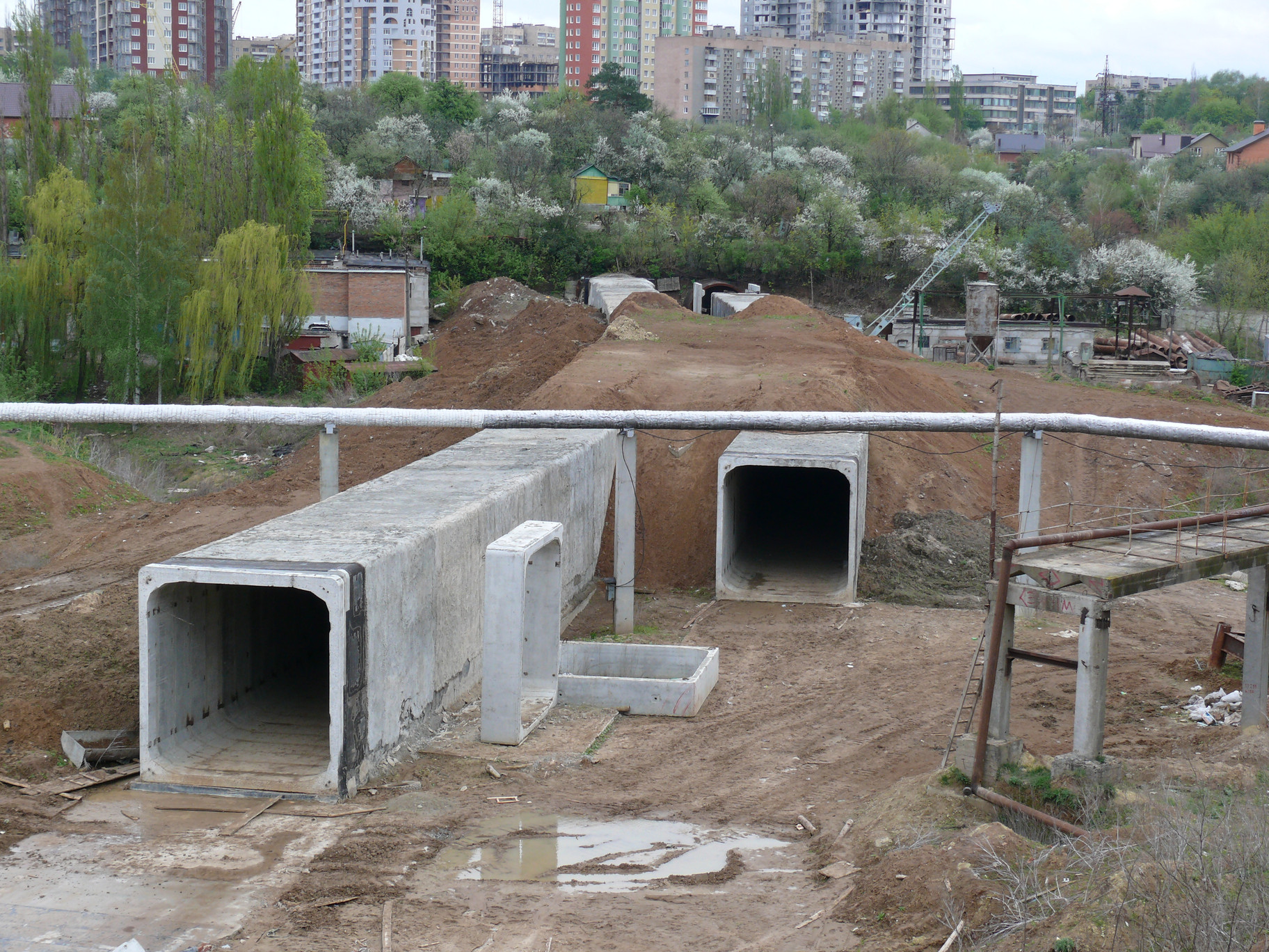 Kharkov metro tunnel construction